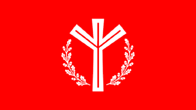 Algiz rune with an oak wreath on flag of the organization National Vanguard, USA. The organization was founded in 2006.